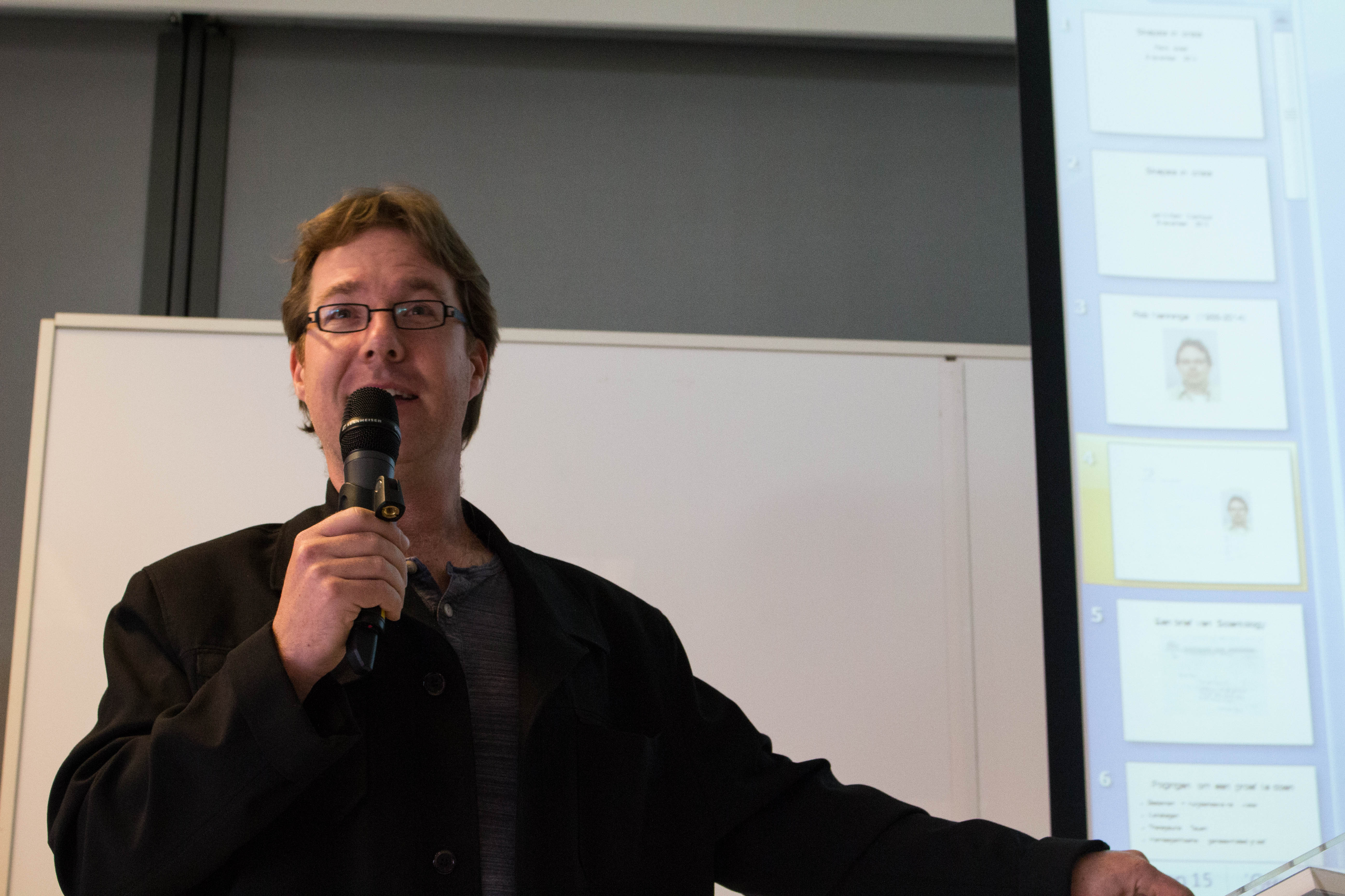 2014 Skepsis congres - crisis in science